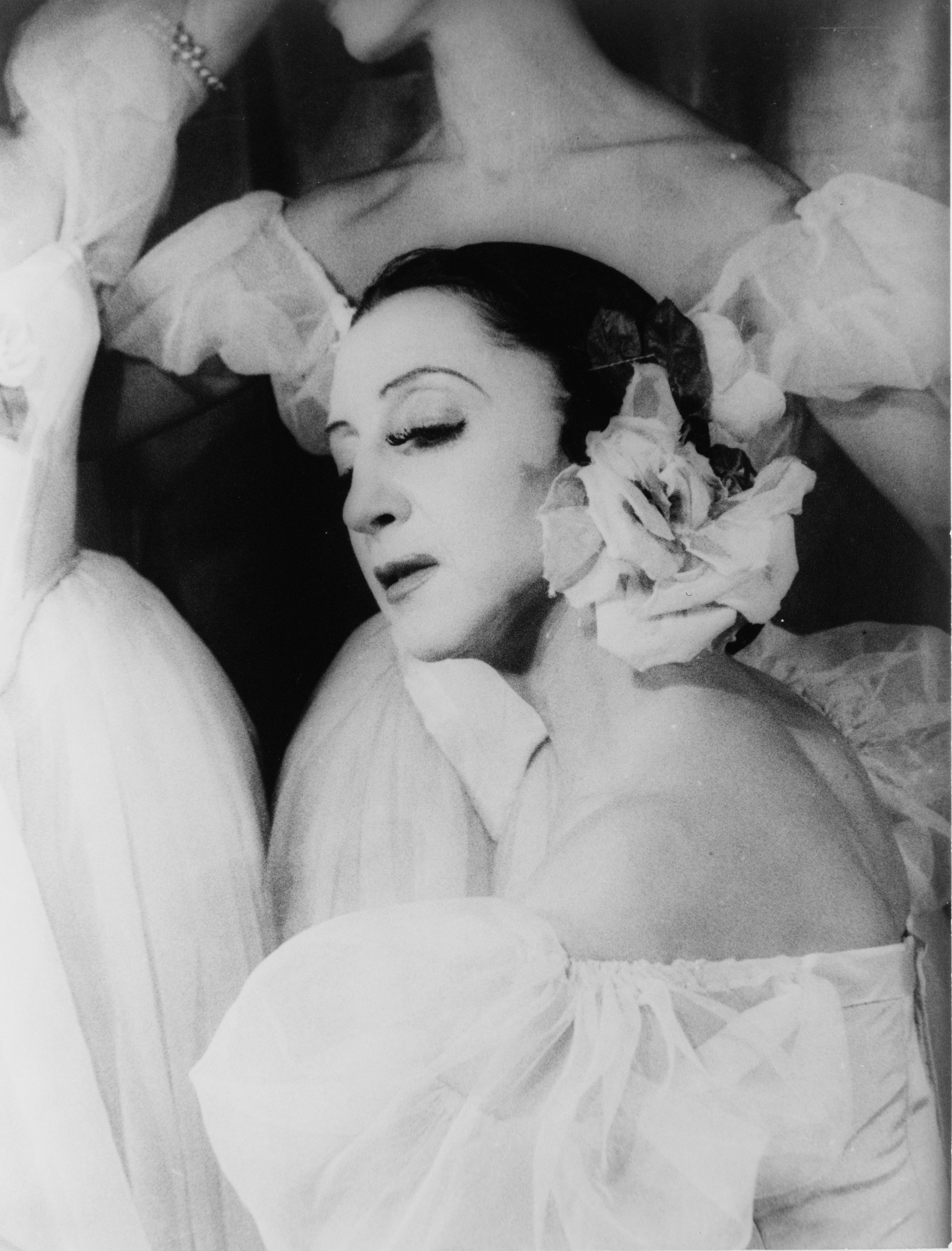 Aleksandra Dionisyevna Danilova ( November 20, 1903-July 13, 1997) — a Russian-born prima ballerina assoluta who became an American citizen. Here she Fanny Cerrito in Pas de Quatre.